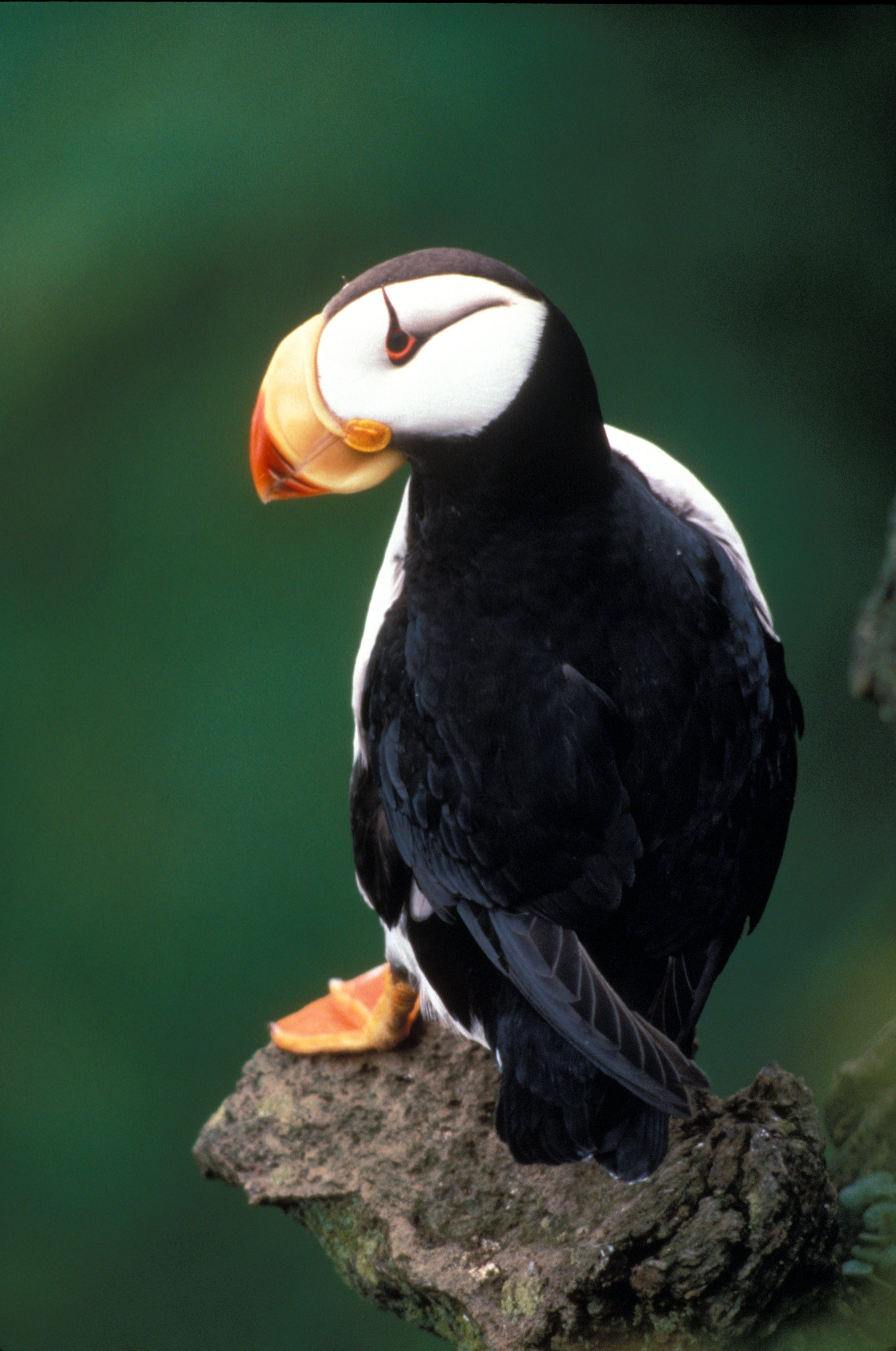 Horned puffin.